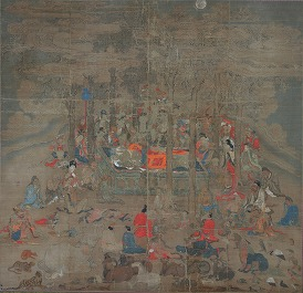 Nirvana painting by Rozen, Hongakuji, Eiheiji, Fukui, Japan